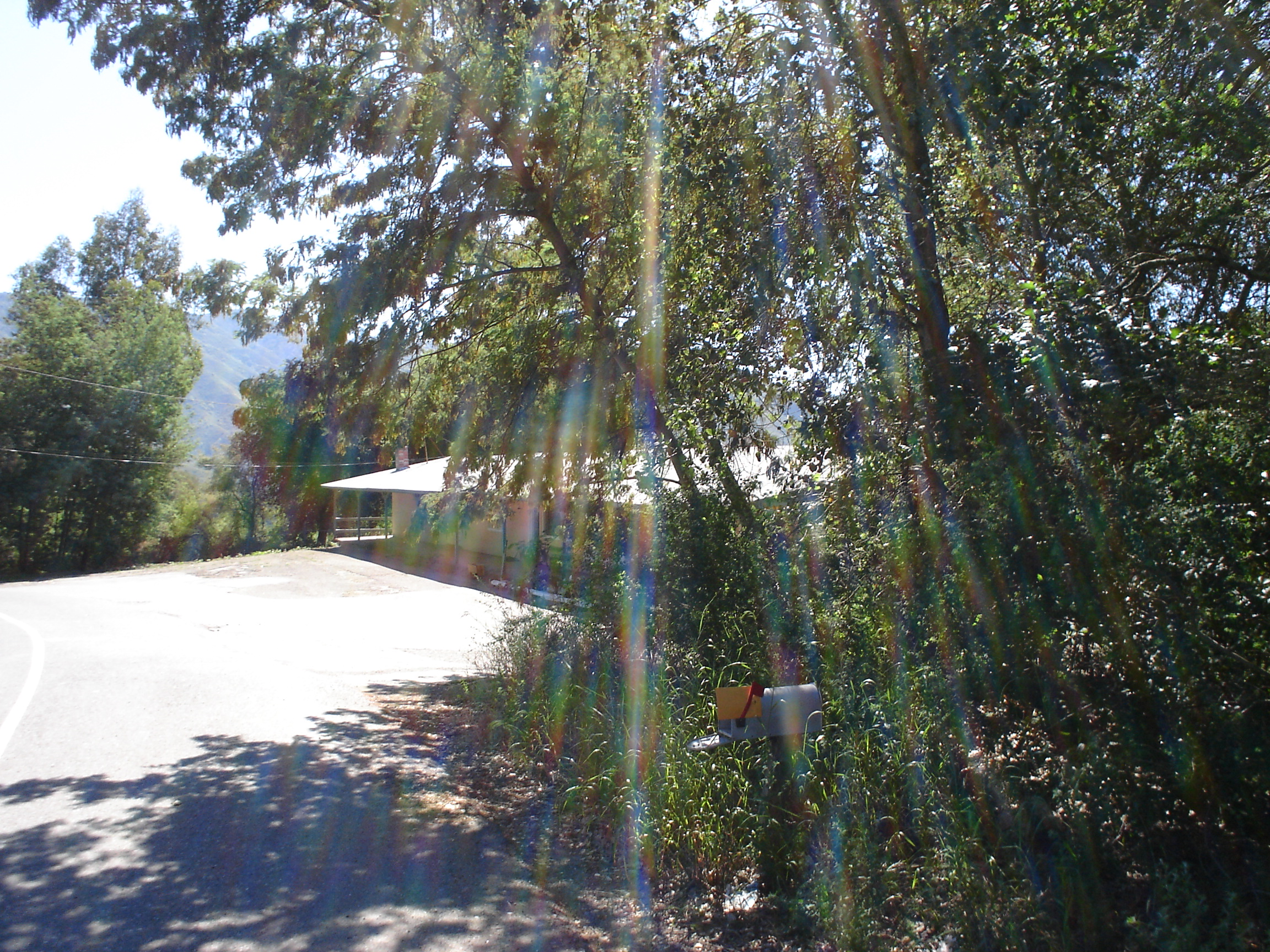 Author:Robert E. Nylund Source:Personal Photos